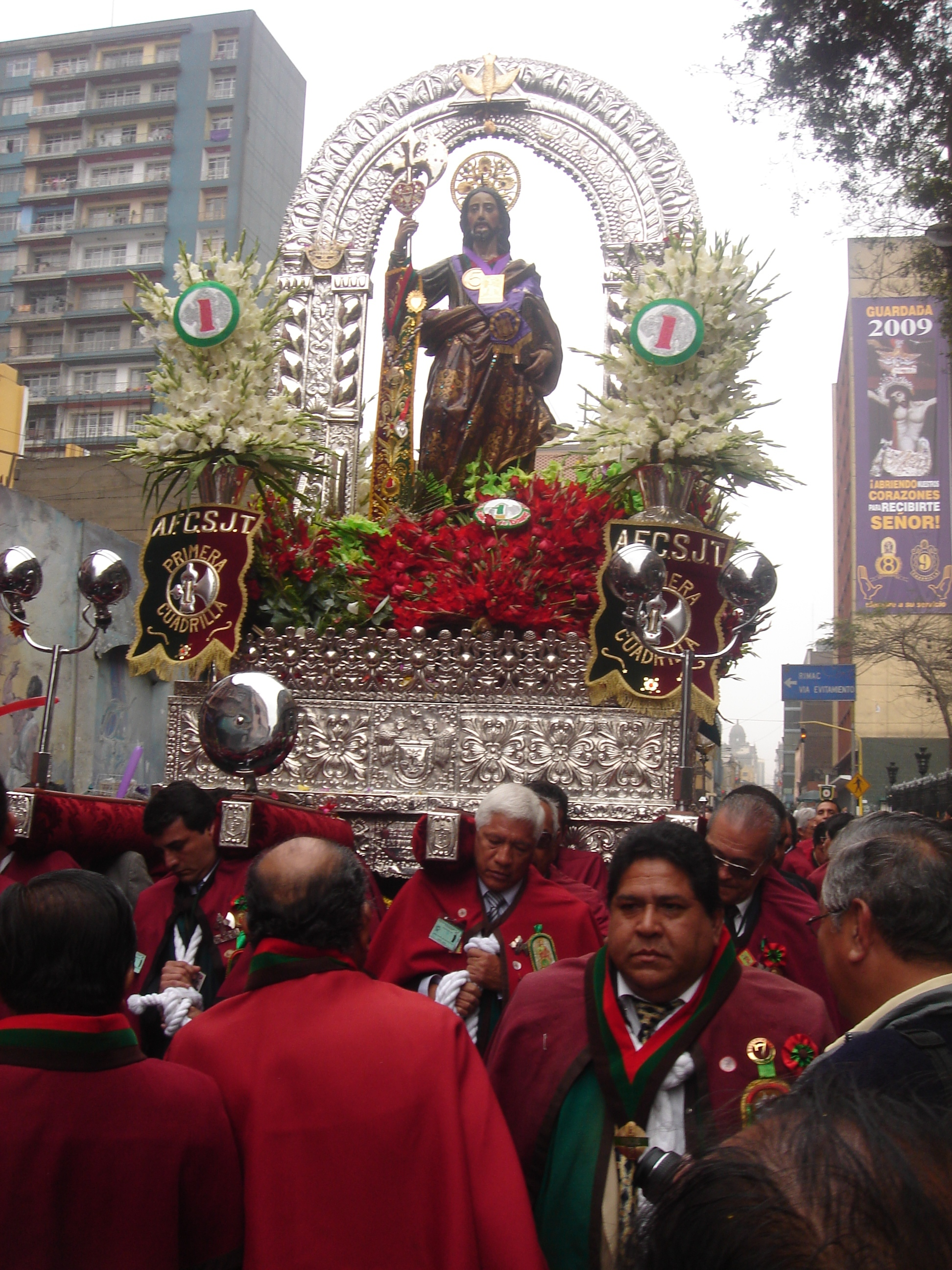 Procession of Saint Jude Thaddeus in Lima, Peru. (2009)